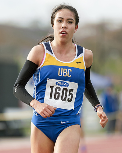 Photo of Canadian athlete Maria Bernard